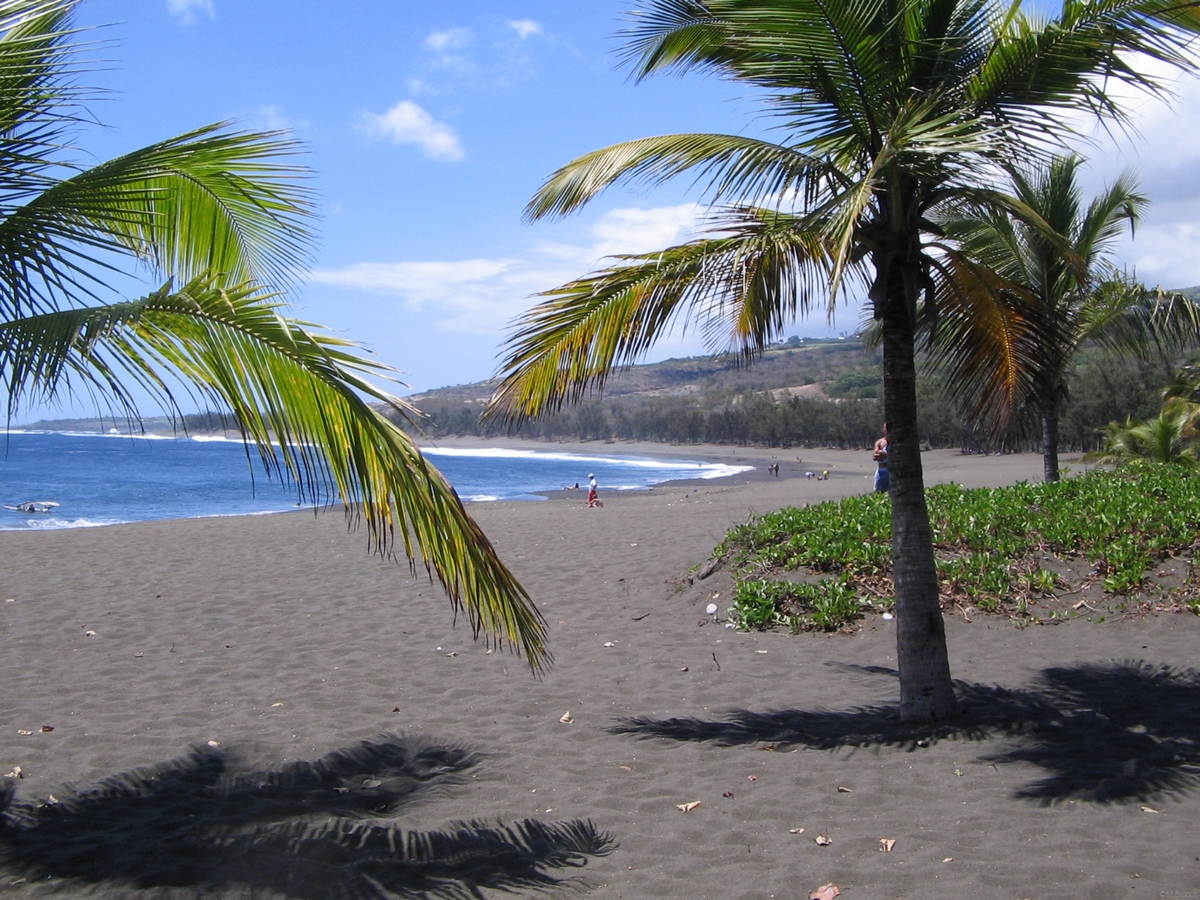 Beach of l'Etang-Salé-les-Bains, Reunion Island